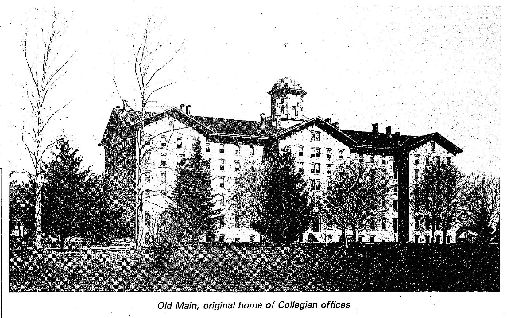 An undated photograph of the original version of Penn State's Old Main the first building on campus.